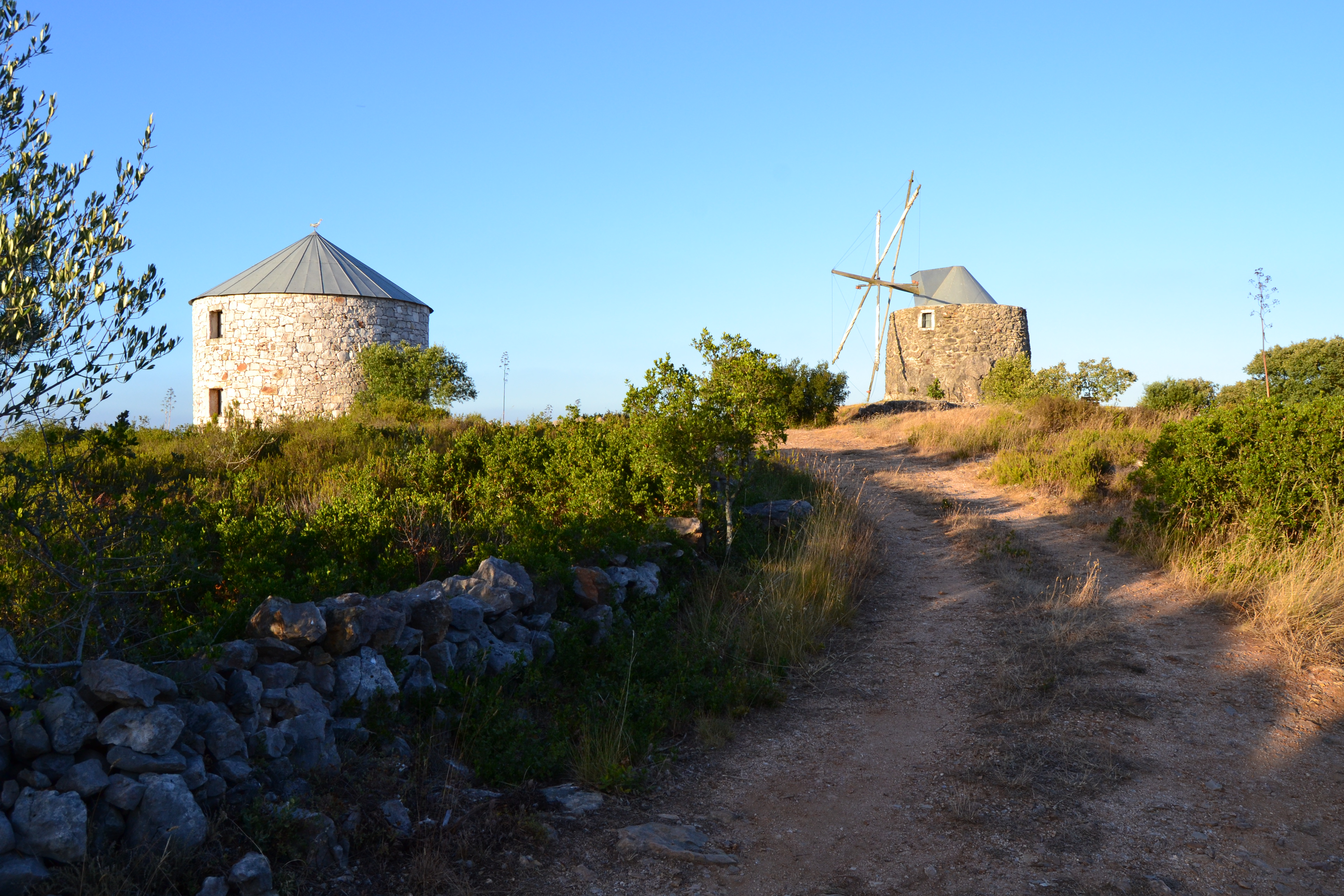 This is a photography of a Site of Community Importance in Portugal with the ID: PTCON0015. Natura2000 entry, EEA entry